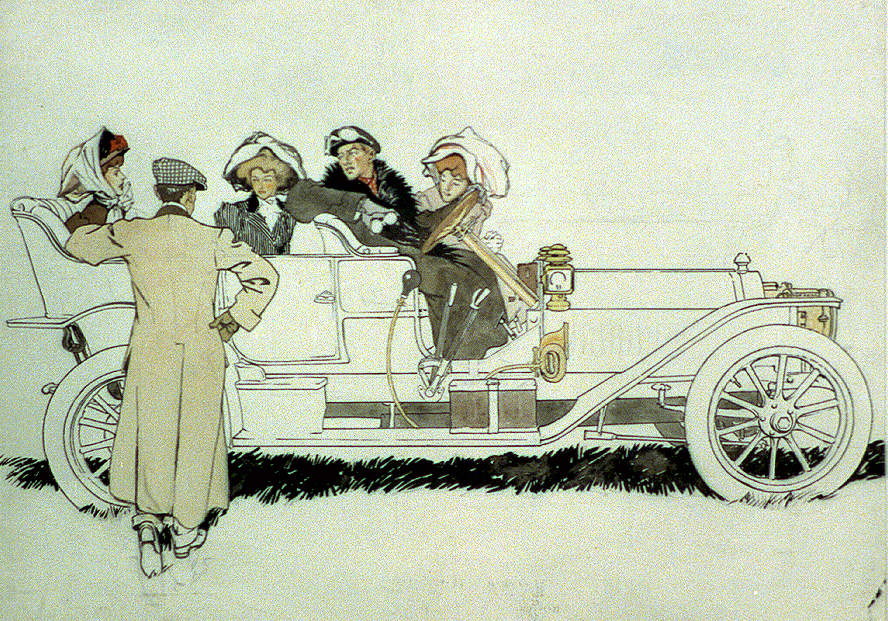 Advertisement art work by Edward Penfield for Pierce Arrow automobiles showing man talking to three women and a man in car